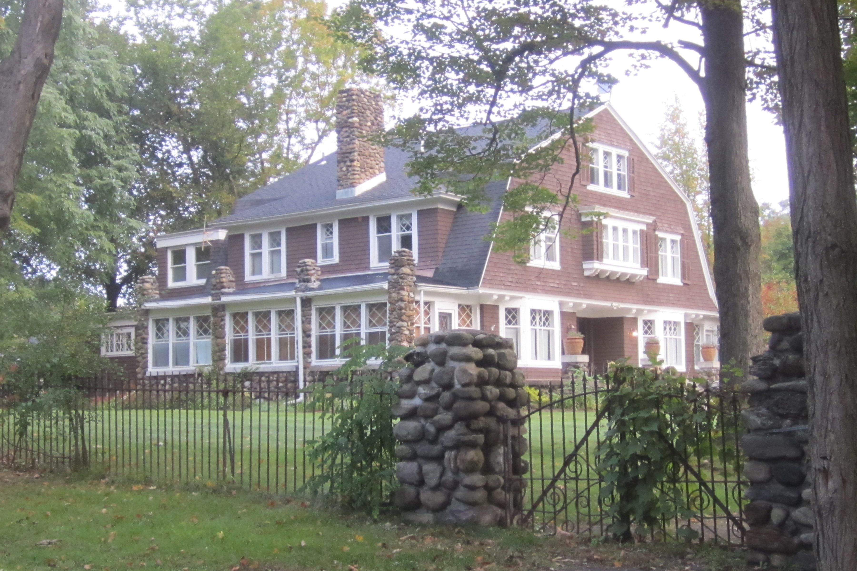 Charles Frederick Cluett residence , Round Lake NY. Designed by R. Newton Brezee, 1908